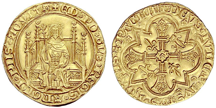 Aquitaine. Gold Chaise d'Or of Edward, the Black Prince (1330-1376). No date (1362-1372). Obverse: Edward enthroned, with a sceptre in his right hand. Legend: + ED * PO * GNS * REGIS * ANGLI * PNS * AQVITA. Reverse: Ornate cross, with leopards and fleurs de lis in alternating corners. Legend : + DEVS * IVDEX * IVSTVS * FORTIS. Z * PACIEN. Weight: 3.47g. E.R Duncan Elias, The Anglo-Gallic coins (London, A. H. Baldwin, 1984) - no. 147. No geocoding available.